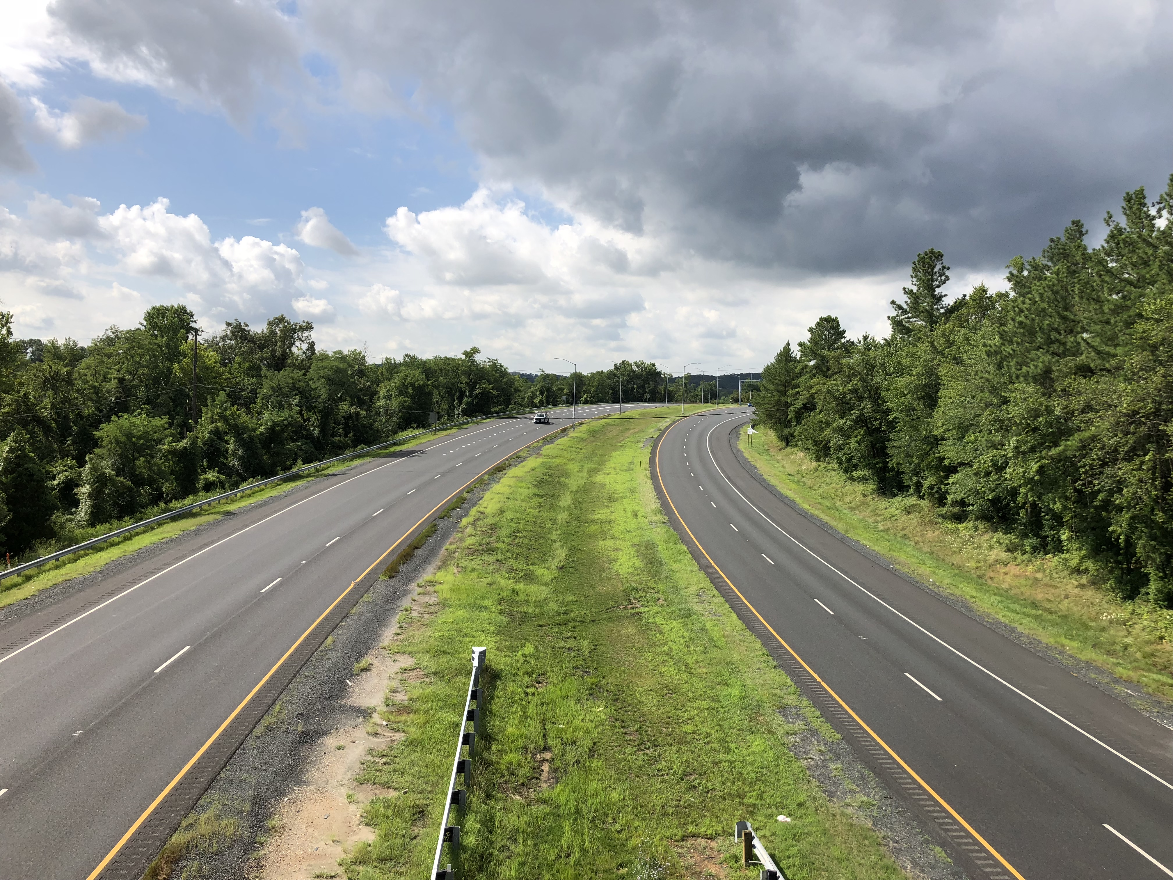 View east along Interstate 195 (Metropolitan Boulevard) from the overpass for Cedar Avenue in Arbutus, Baltimore County, Maryland